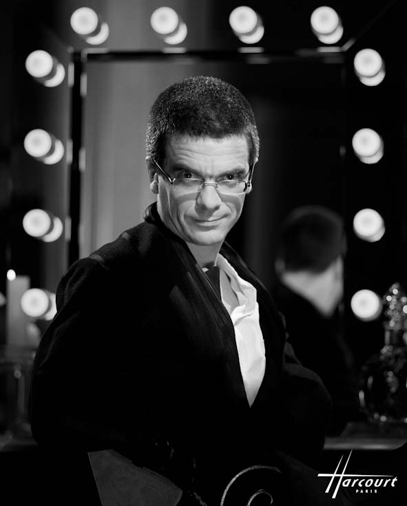 Philippe Decouflé photographed by Studio Harcourt Paris